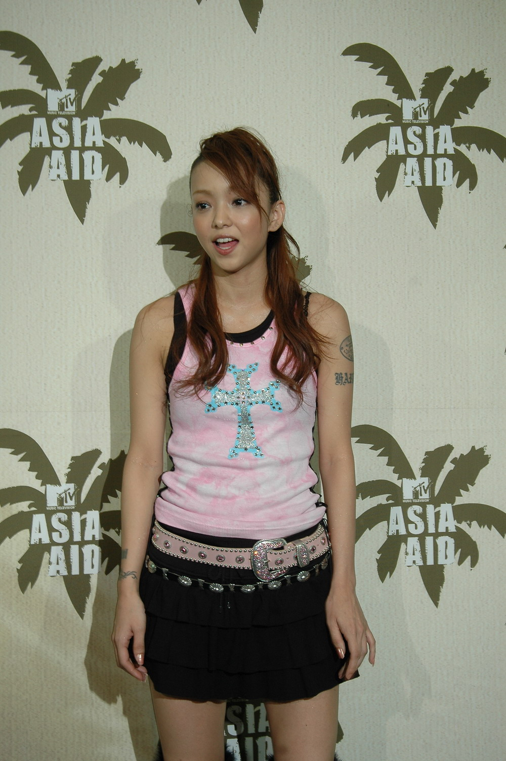 Namie Amuro On the red carpet at MTV Asia Aid,Bangkok, Thailand